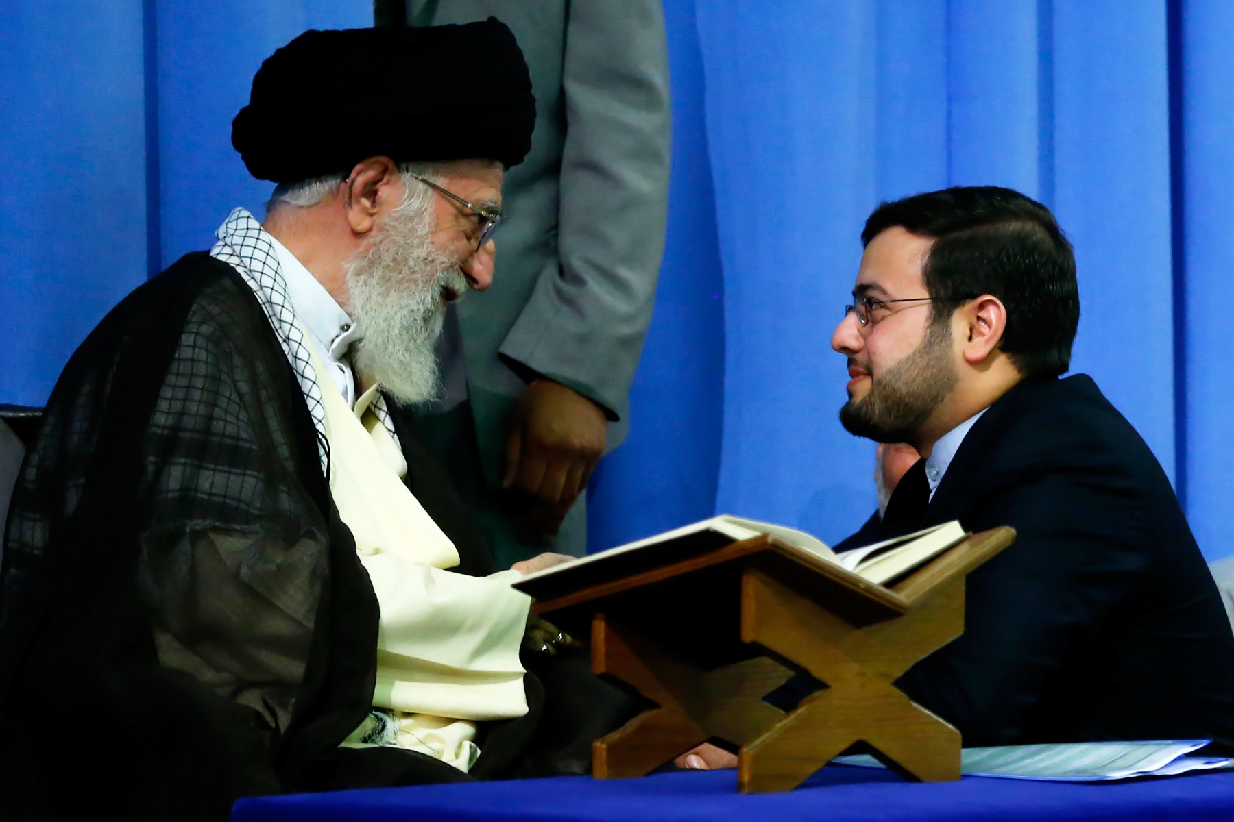 Sayyed Ali Khamenei and Mohsen Haji Hassani Kargar